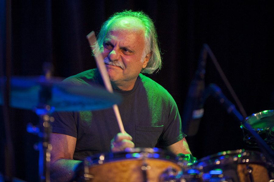 SF Bay Area drummer, Greg Anton